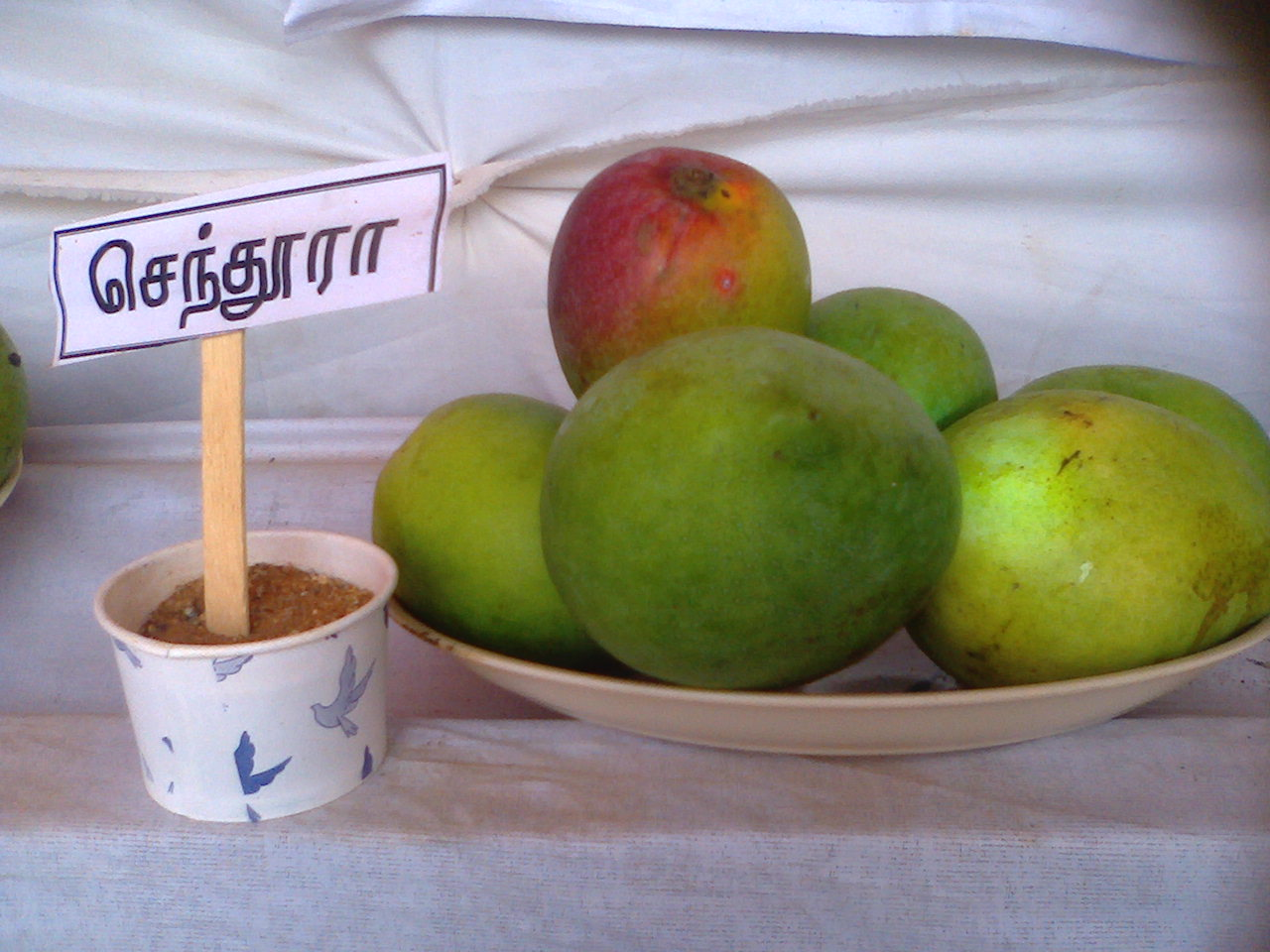 செந்தூரா மாம்பழம்